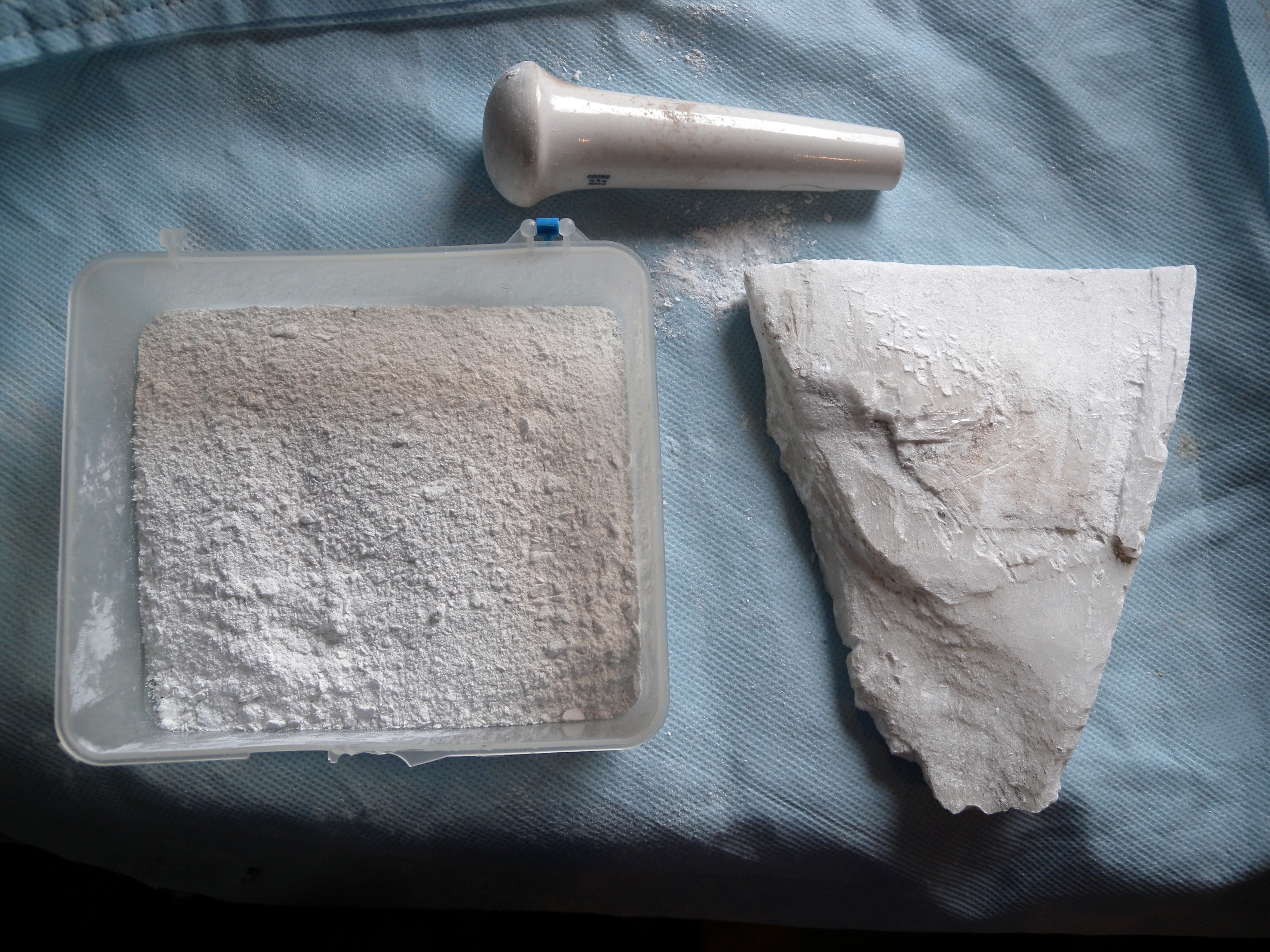 Gypsum sample crushed into a powder